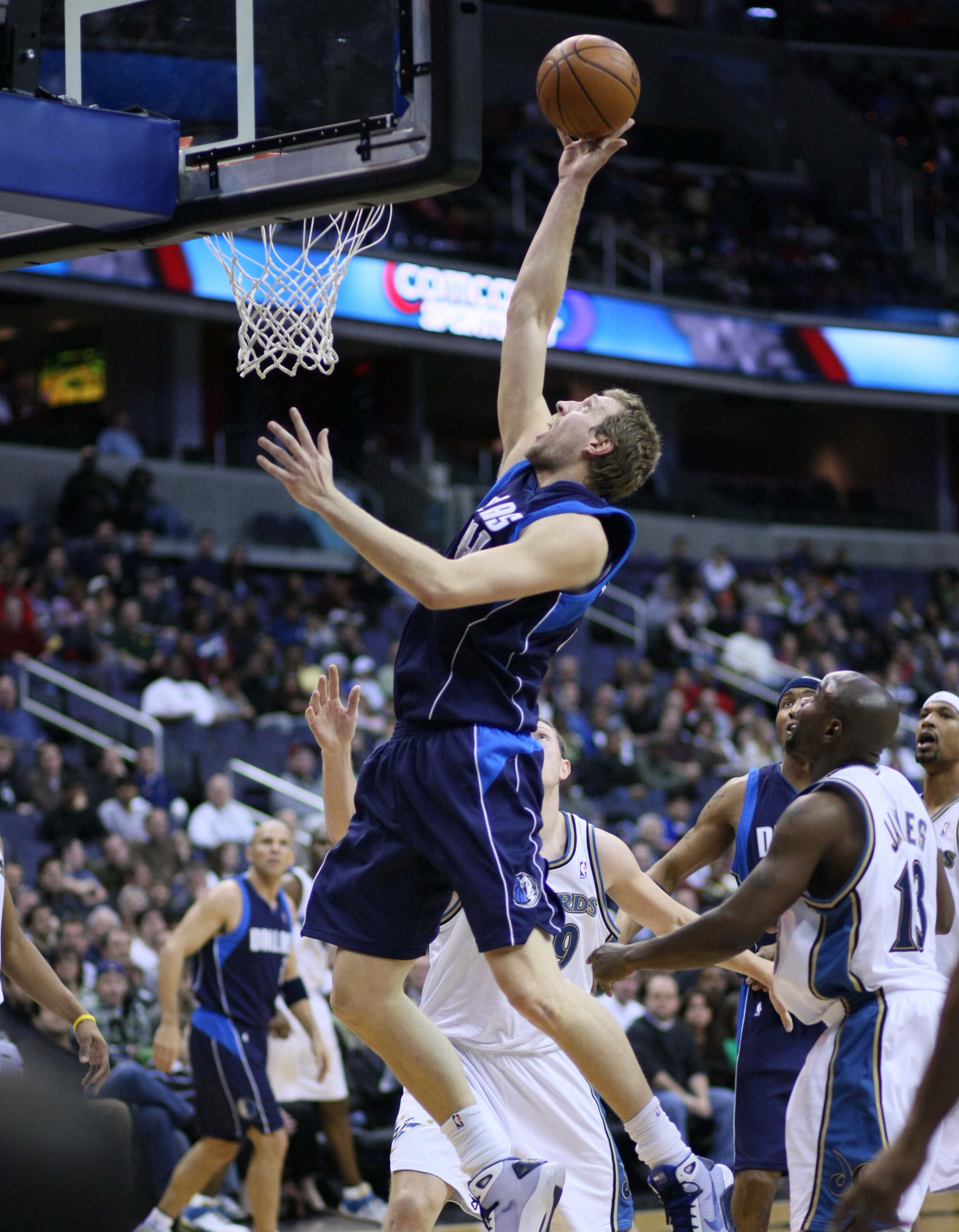 Dirk Nowitzki playing with the Dallas Mavericks